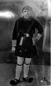 Nikolaos_Nikoltsis